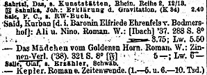 Baroness Elfriede von Bodmershof,listed for the pseudonym of Kurban Said as author of "Ali and Nino" (1937) and "Girl from the Golder Horn" (1938), both in German in Deutsches Bucherverzeichnis (German Index of Books).